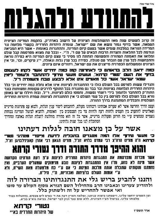 Condemnation of the extremist faction of Neturei Karta issued by its mainstream branch, for its participation to the conference in Tehran organised by Iranian president Ahmadinejad about the genocide of Jews, December 2006.